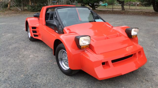 Bolwell MkIX Ikara